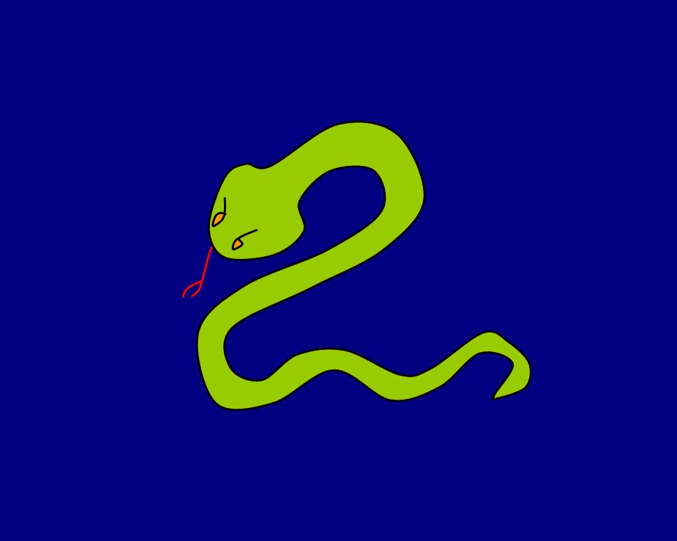 The flag of tribe Dan